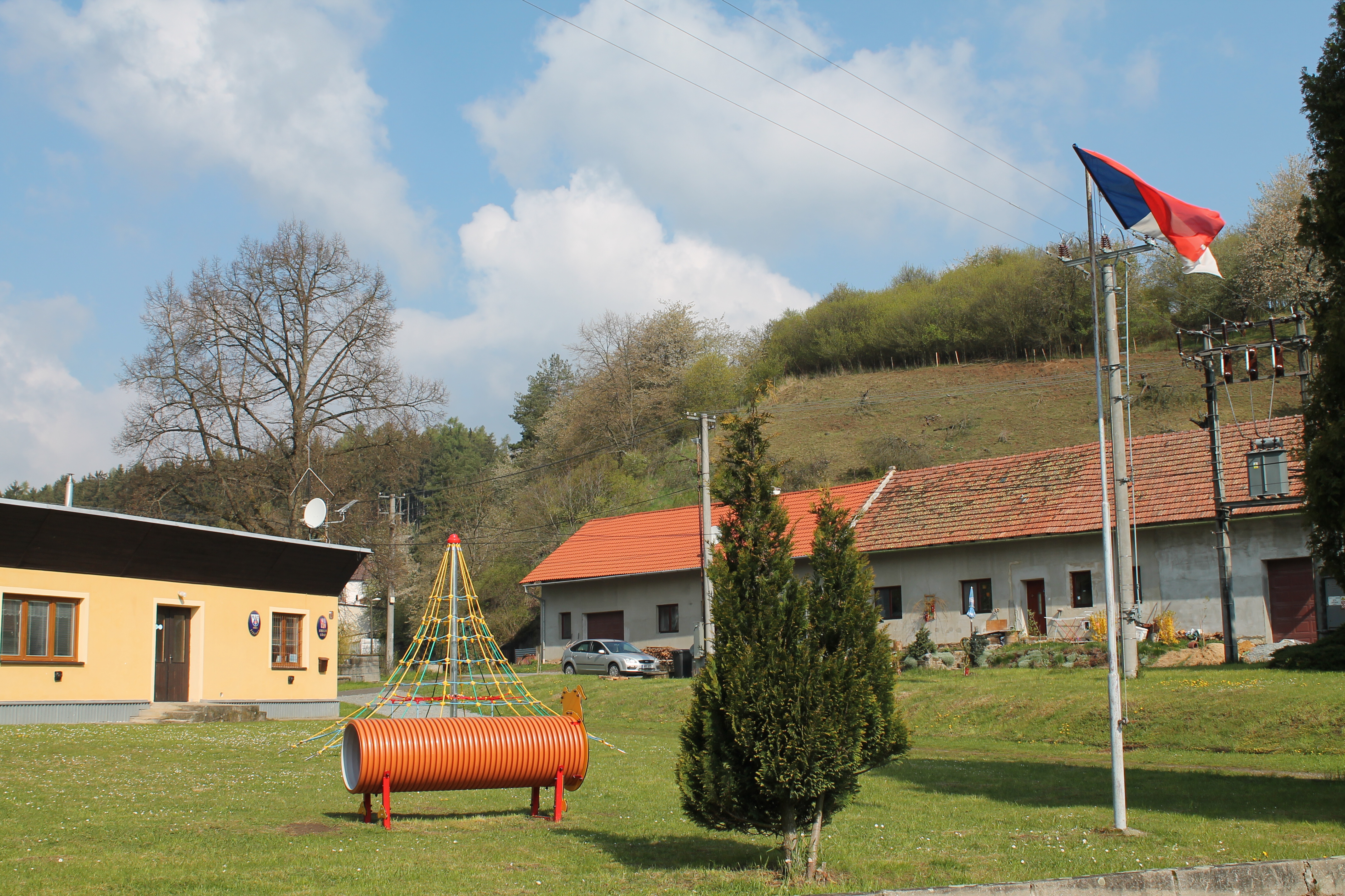 Lačnov, Štěchov, Blansko District, Czech Republic This photograph was taken during a group photography field trip by Brno Wikipedians: 2017-04-29.